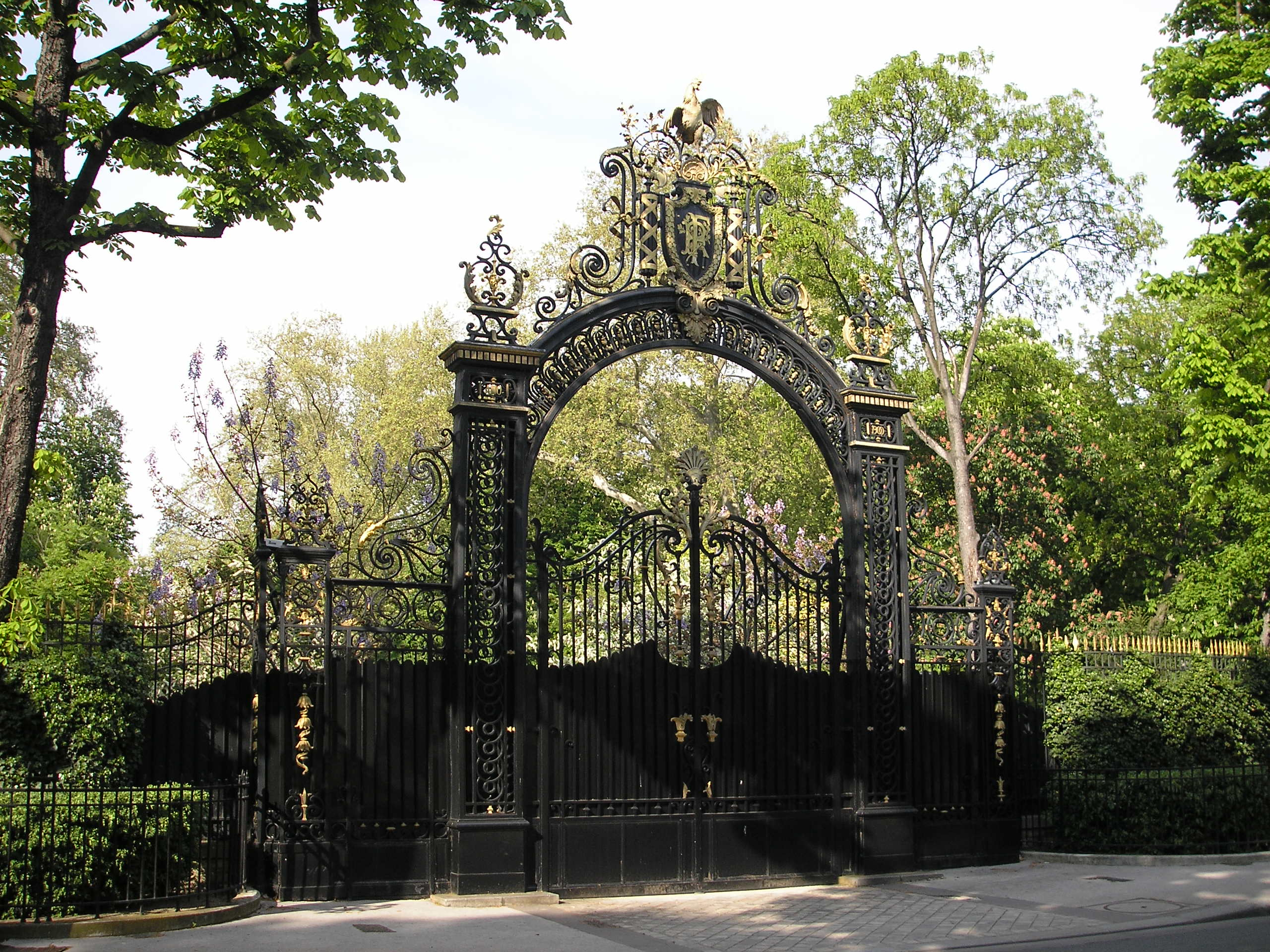 Gate to the garden at the Élysée Palace in Paris